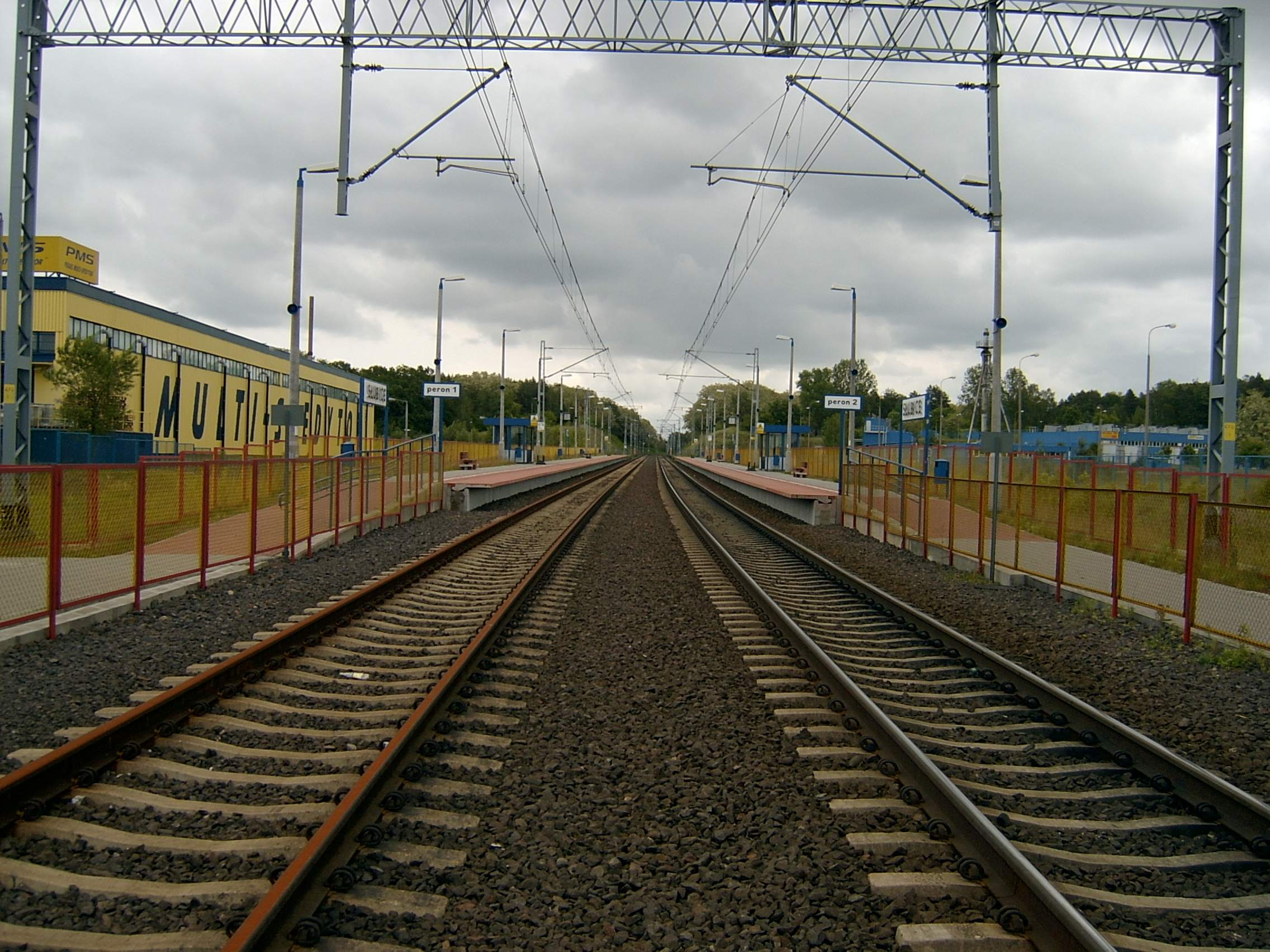 railway station in Słubice